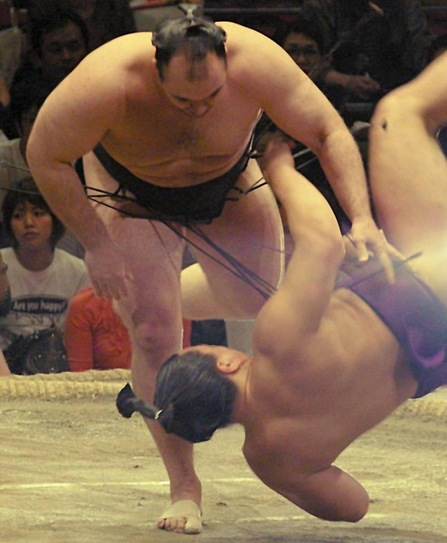 A sumo bout between Roho and Ama, Tokyo, October 2007